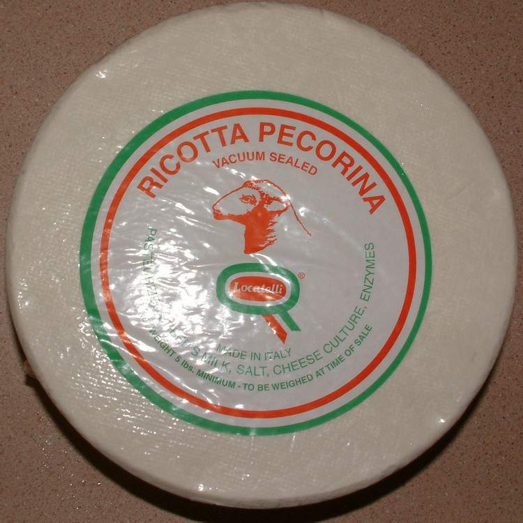 Italian cheese imported to USA